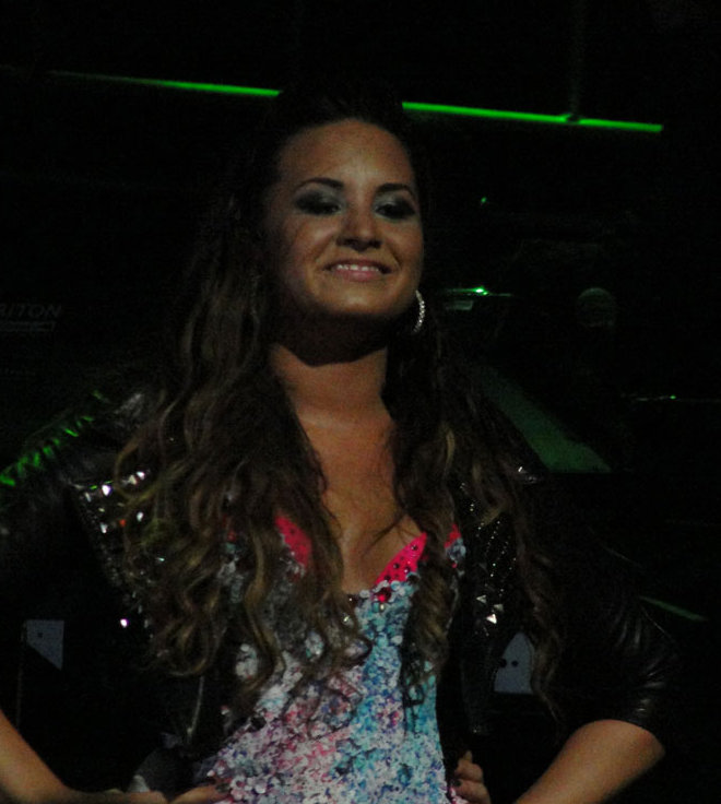 Demi Lovato performing "La La Land" at Club Nokia in Los Angeles